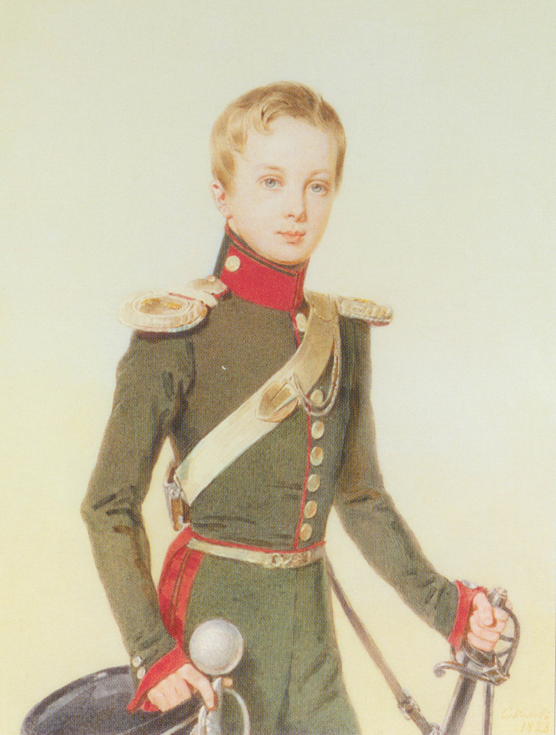 Alexander II of Russia as a child